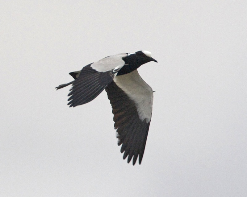 Blacksmith Plover in Kwa Madwala Game Park, Mpumalanga, South Africa, on 9th. October 2009. Wing spurs are present in both sexes but grow to longer lengths in males. Range map: [1]